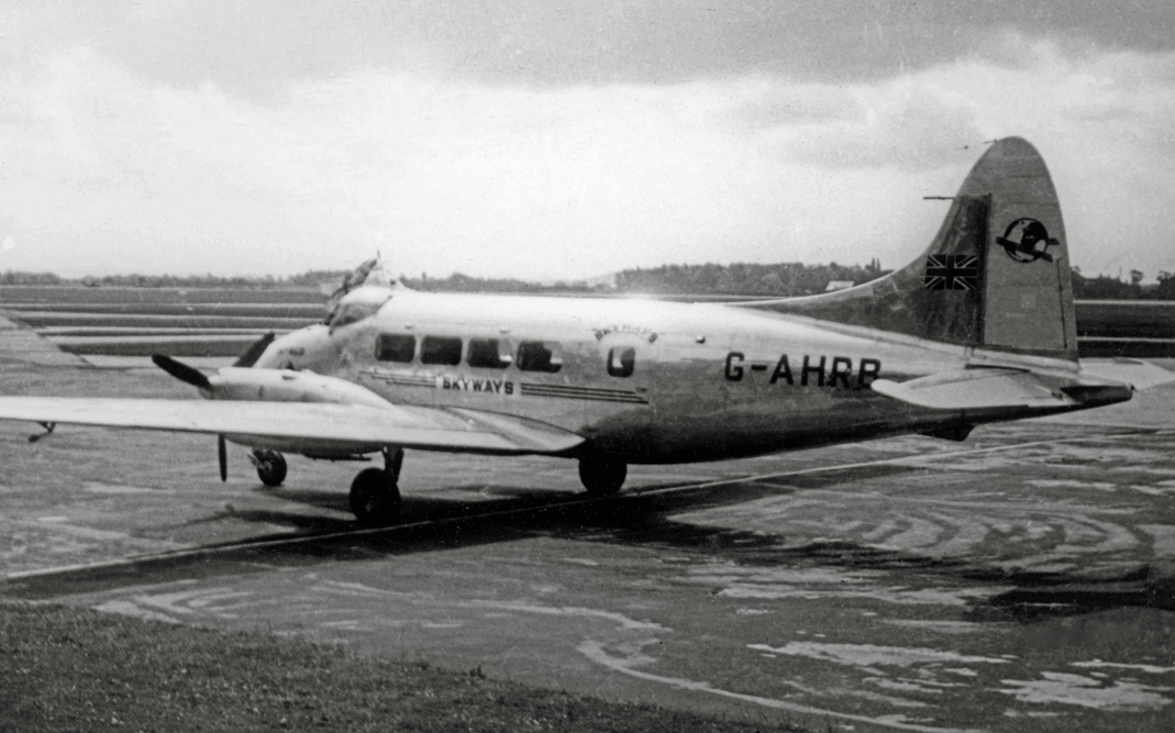 DH.104 Dove 1 G-AHRB of Skyways of London on a charter flight at Manchester (Ringway) Airport in 1948